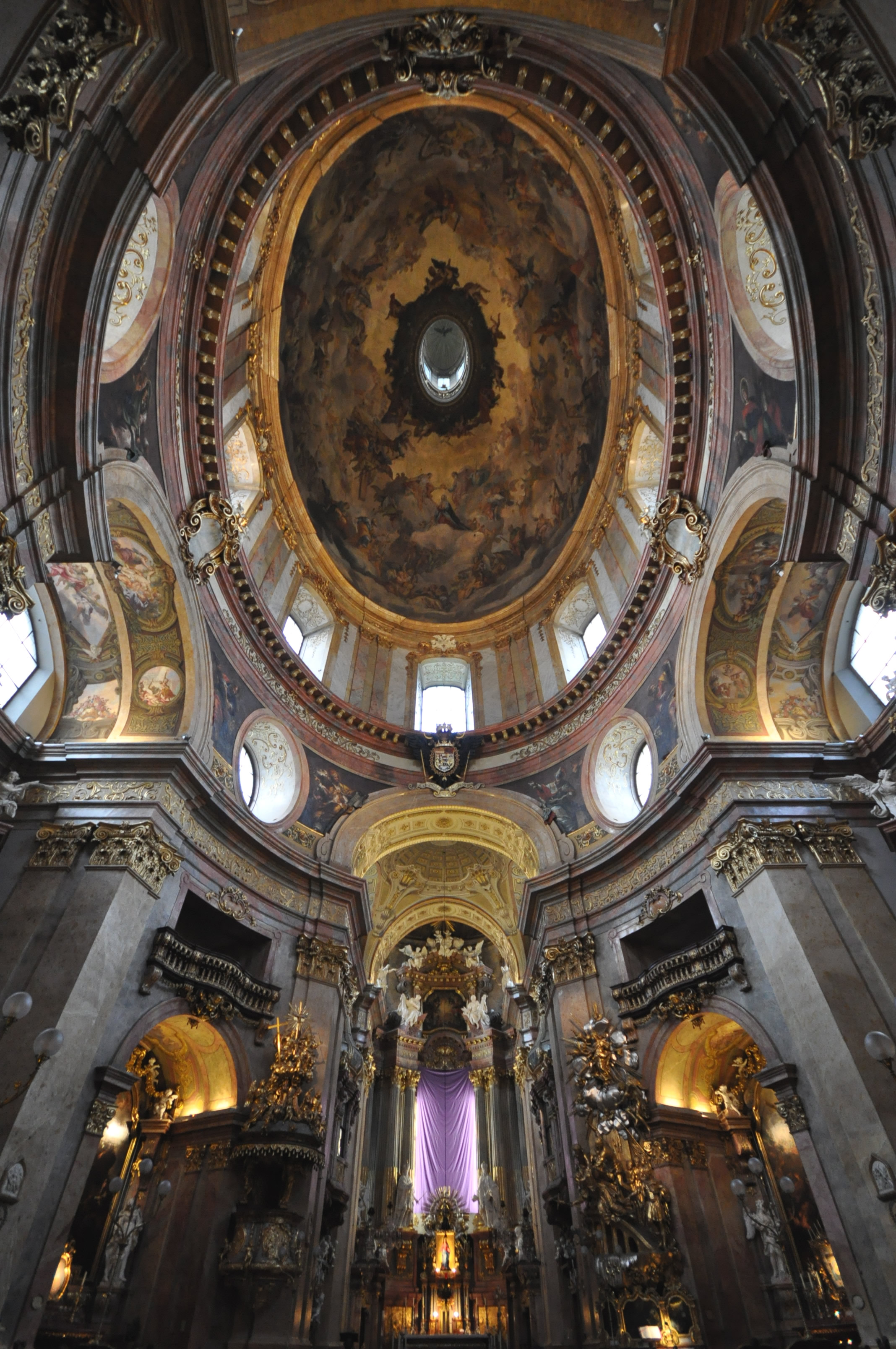 St. Peter church's atrium (Peterskirche)